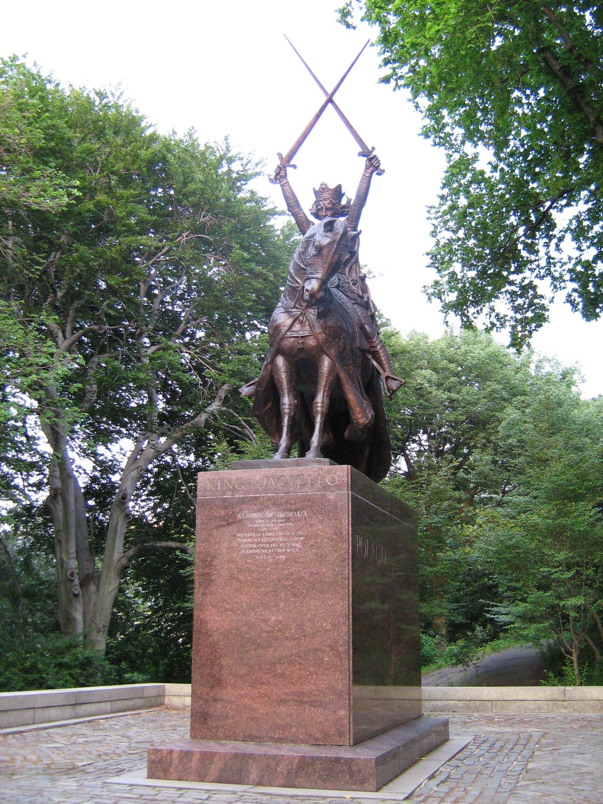 Statue of Jogaila (Władysław II Jagiełło) Poland. The King Jagiello Monument located in Central Park New York City, New York, USA.